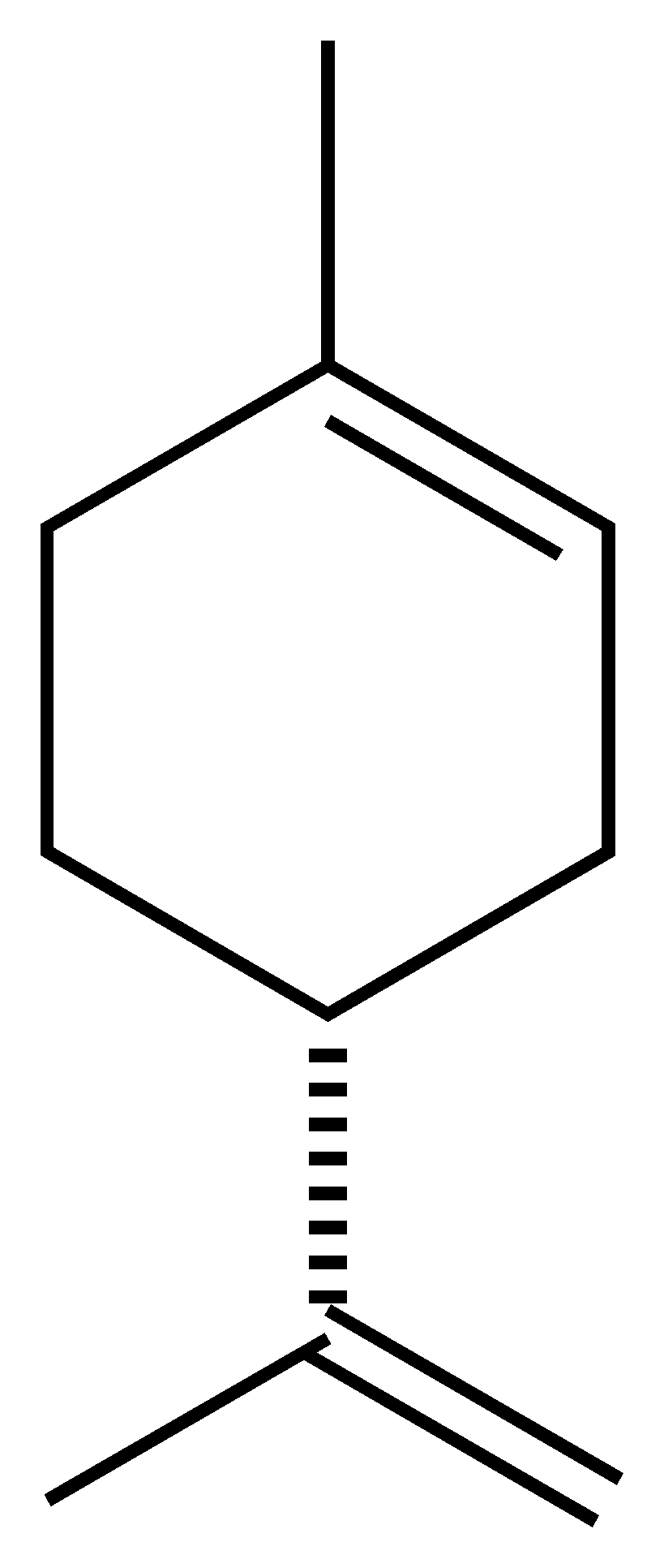 Structure of (R)-Limonene